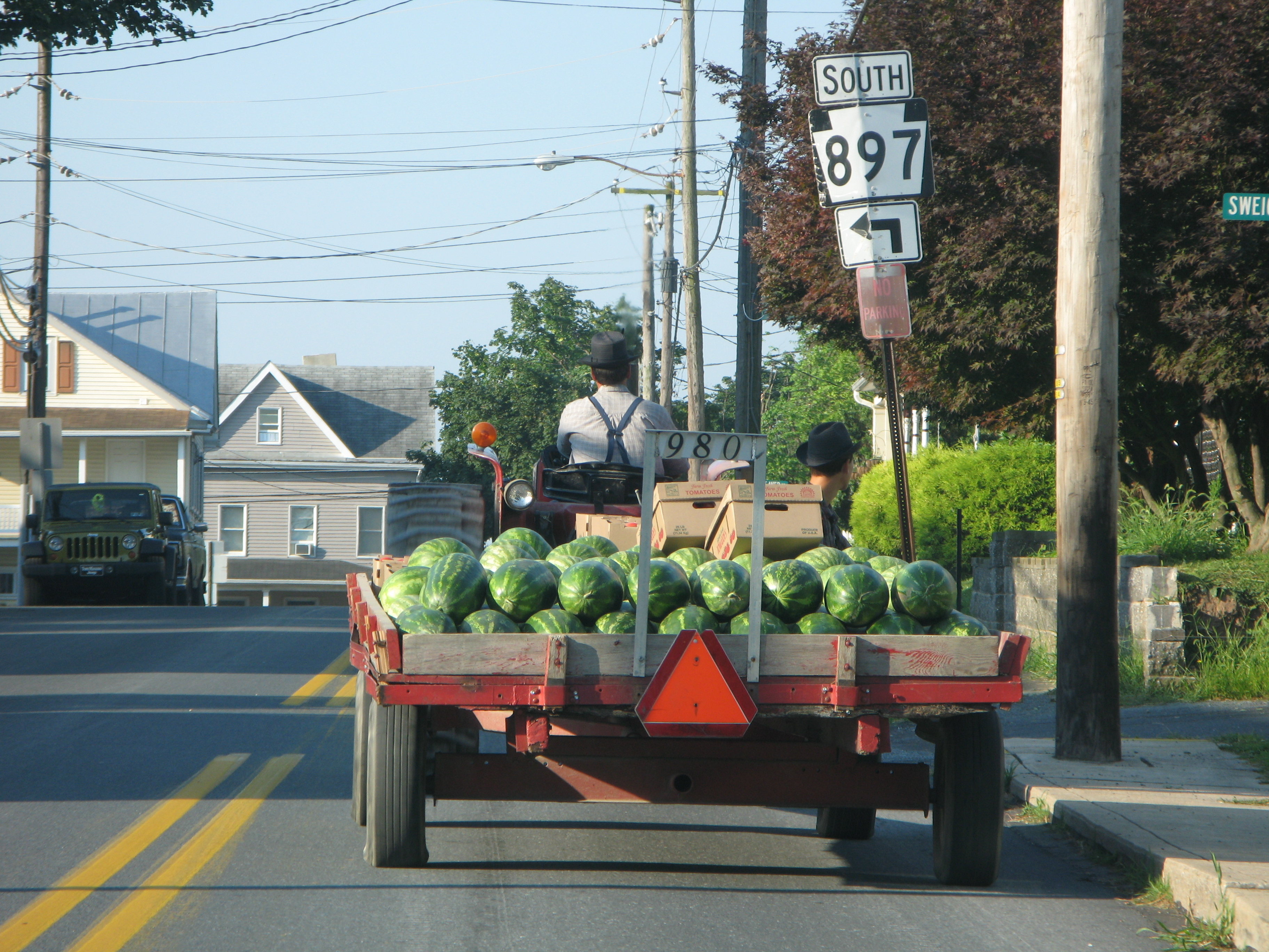 Watermelons on their way to a farmers market in Terre Hill, Lancaster County photo taken near the intersection of Sweigart Street and Pennsylvania Route 897.